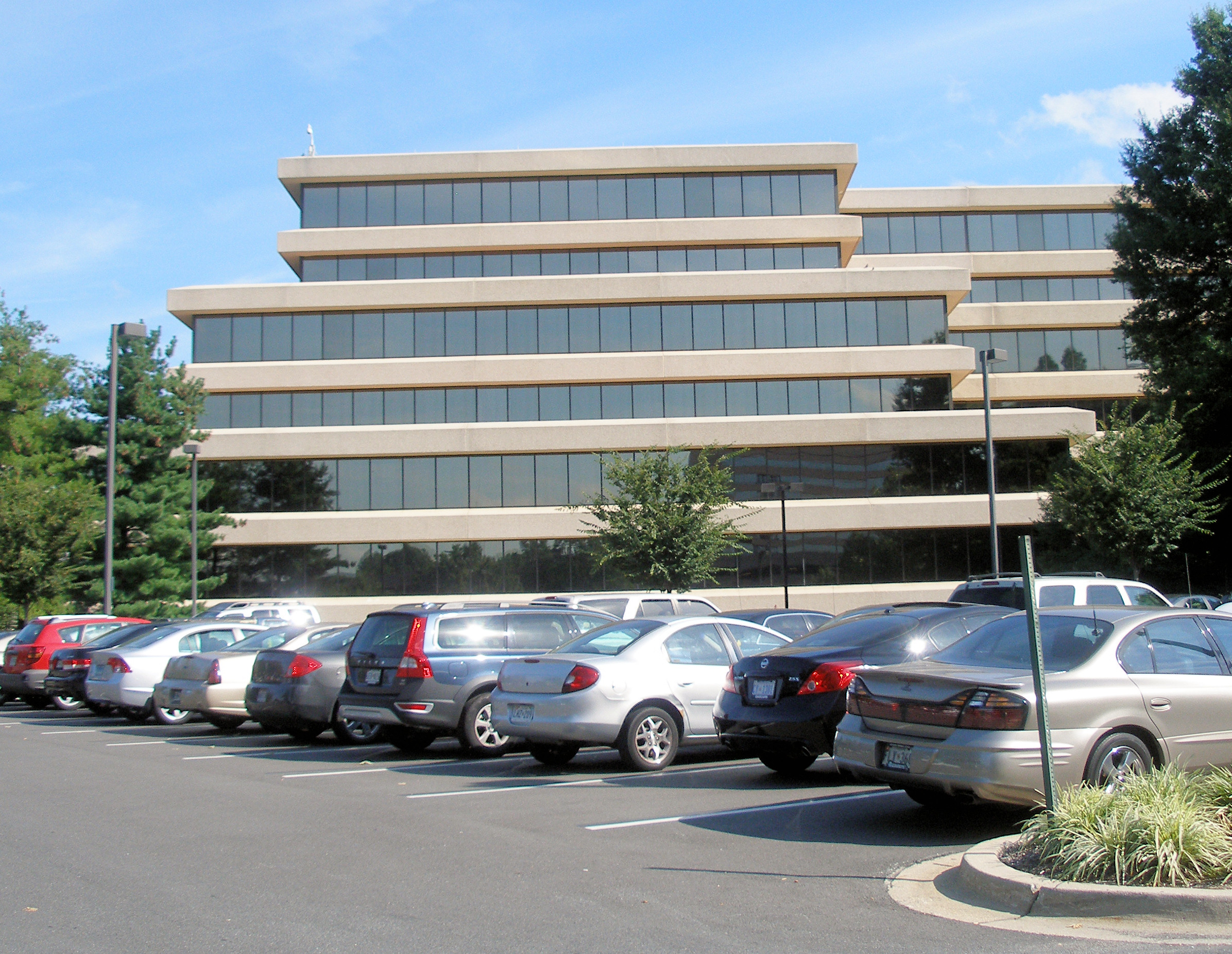 Marriott International headquarters in Bethesda. Photographed by user Coolcaesar on August 22, 2008.